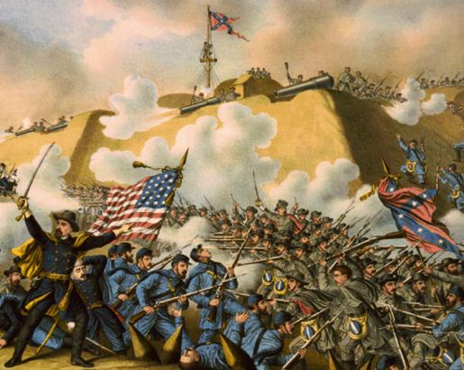 TITLE: Excerpt from "Capture of Fort Fisher" (Second Battle of Fort Fisher). SUMMARY: Excerpt of painting showing troops led by Union Army Major General Alfred H. Terry fighting Confederates on January 15, en:1865. CREATED/PUBLISHED: Chicago : Kurz & Allison, Art Publishers, en:1890. Source URL (Library of Congress): . Variations: PNG format full view: Image:Battle of Fort Fisher.png (981 KB). JPEG format full view 80%: Image:Battle of Fort Fisher.jpg (66 kb). (JPEG files as thumbnails can display 8x-20x times faster than PNG-format files, due to edge blending.)